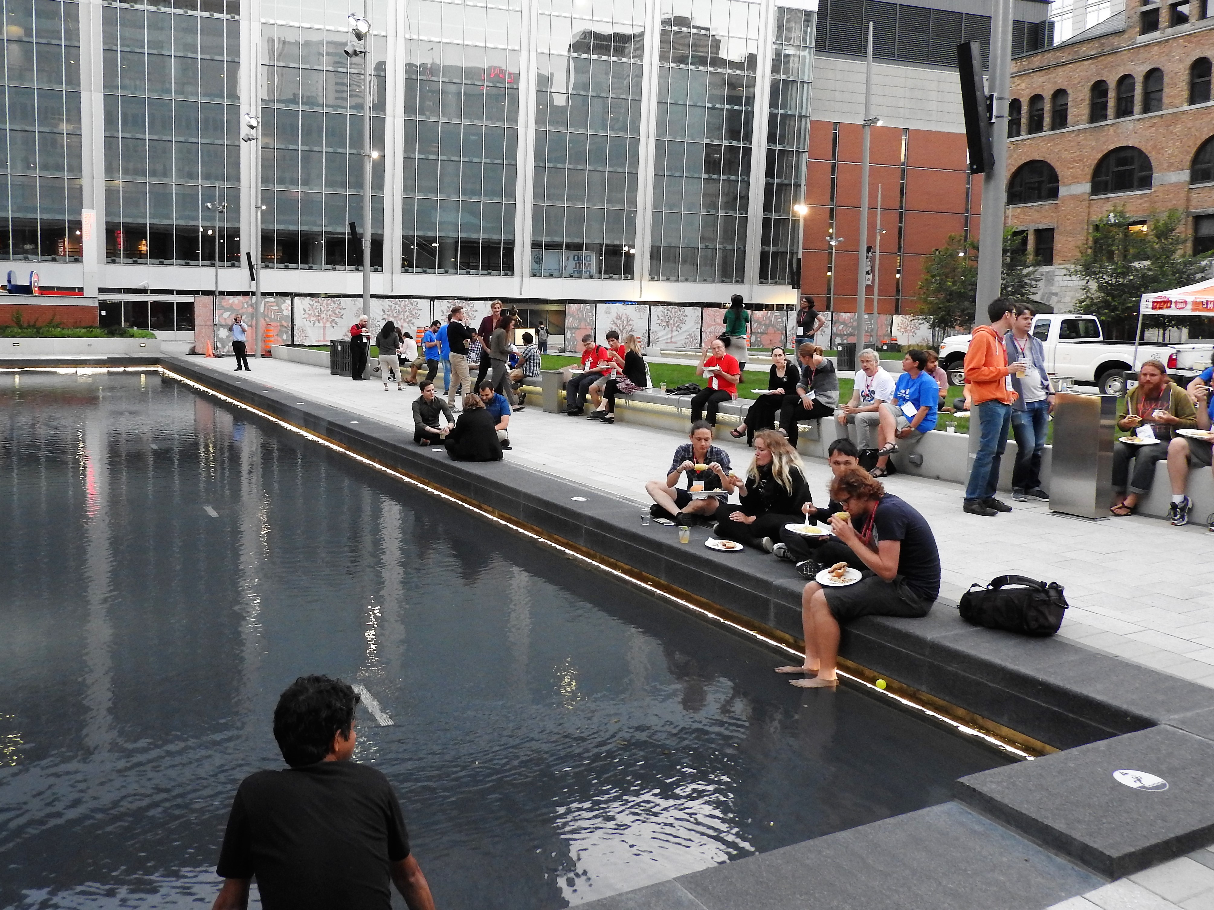 Wikipedians by the forbidden pool